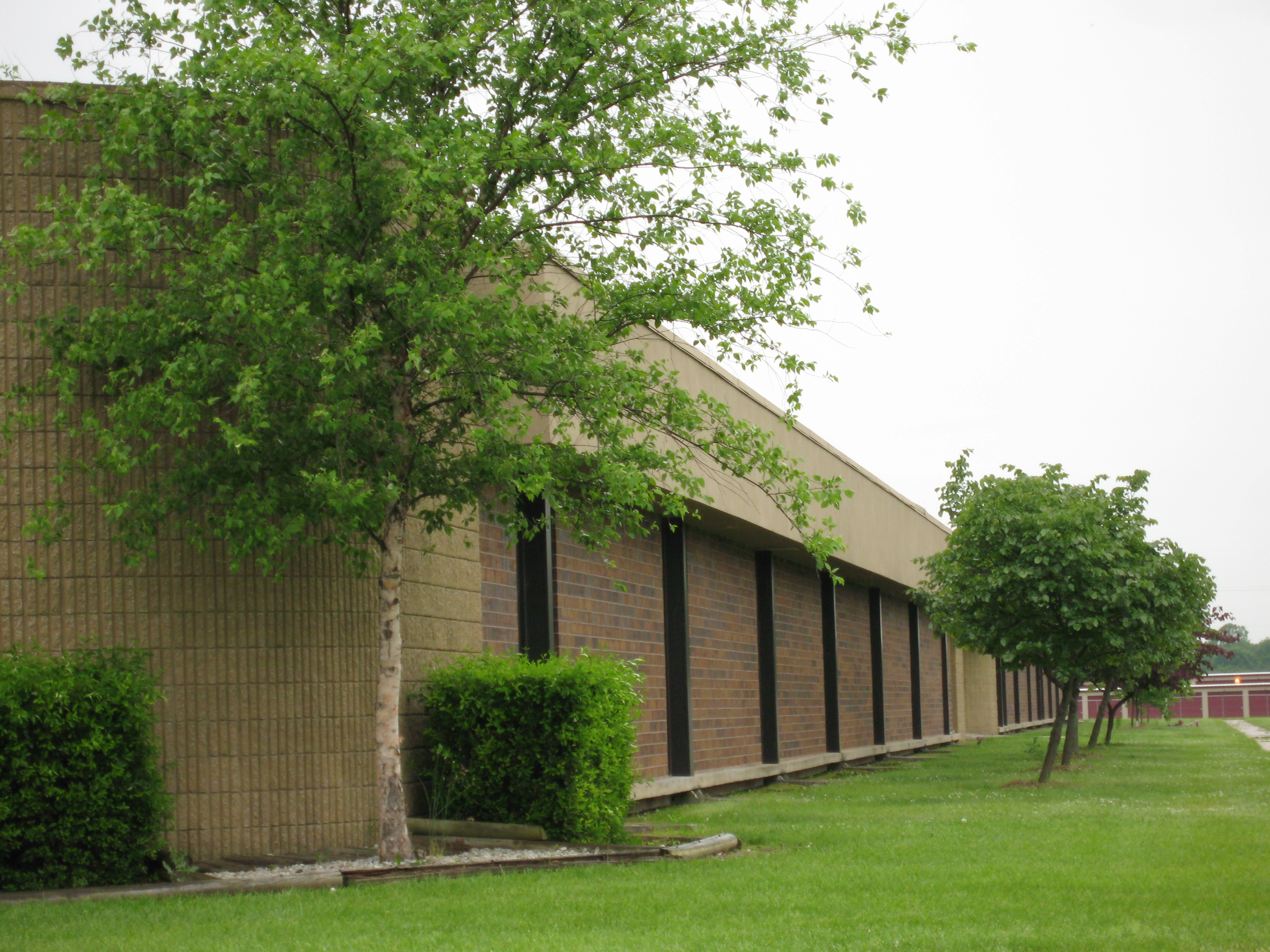 A side view of Pittsburg High School taken by an anonymous Pittsburg, KS resident who allows the usage of this pictures under the license below.